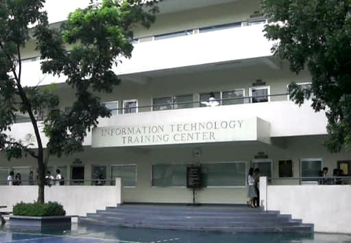 Image of AUF-ITTC taken through camera phone. (edited version of AUF-ITTC.jpg)